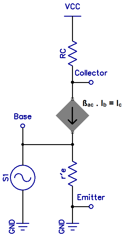 r-parameter transistor model of a common-emitter amplifier connected to an external circuit